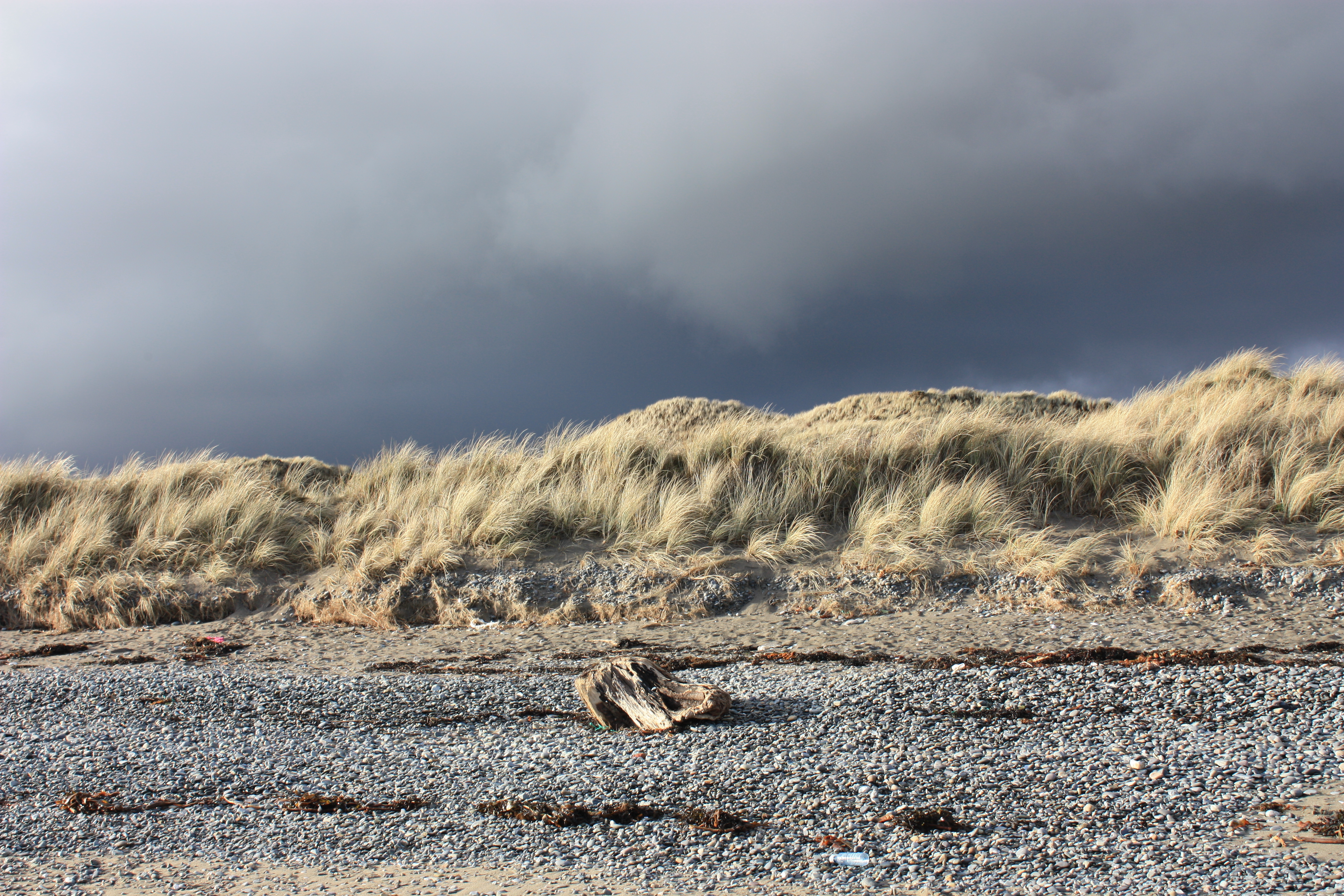 Murlough Beach, Newcastle, County Down, Northern Ireland, February 2010 (sand dunes at the fringe of Murlough National Nature Reserve)